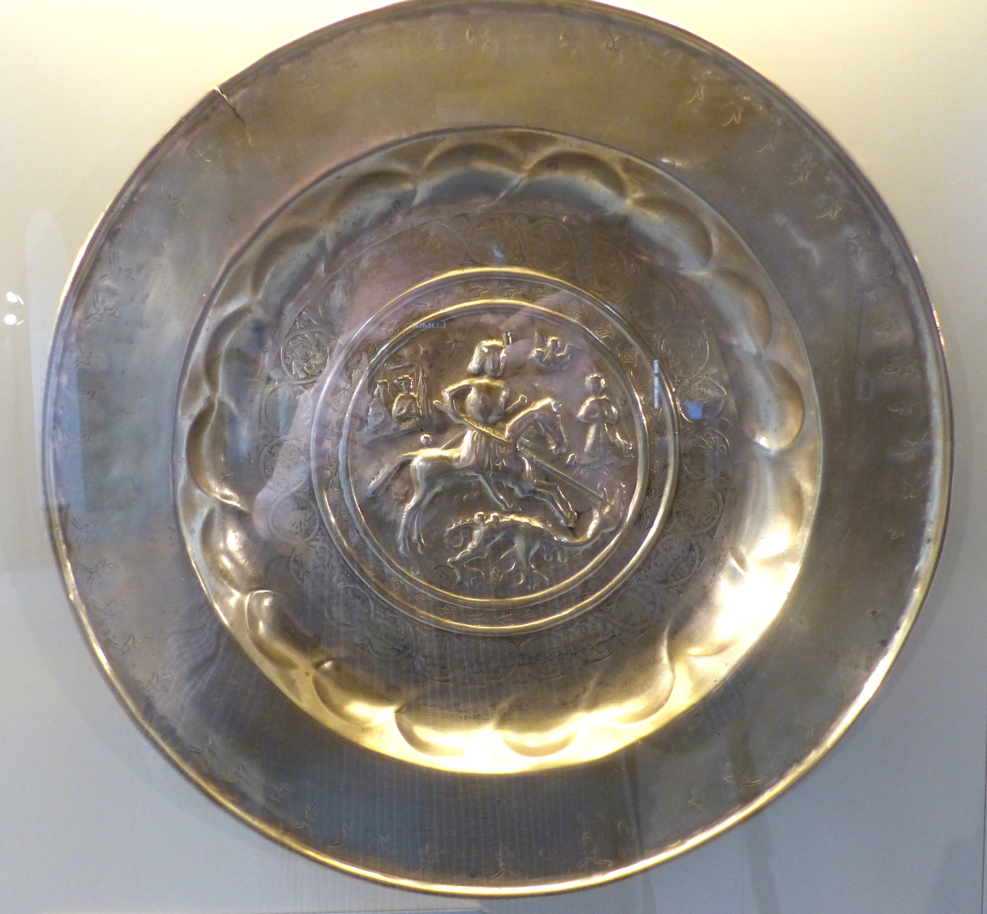 Cadolzburg ( Middle Franconia ). Castle museum: Hand-washing brass bowl ( "Beckenschläger" ) showing a relief of Saint George and the dragon ( 1500s ), from Nuremberg